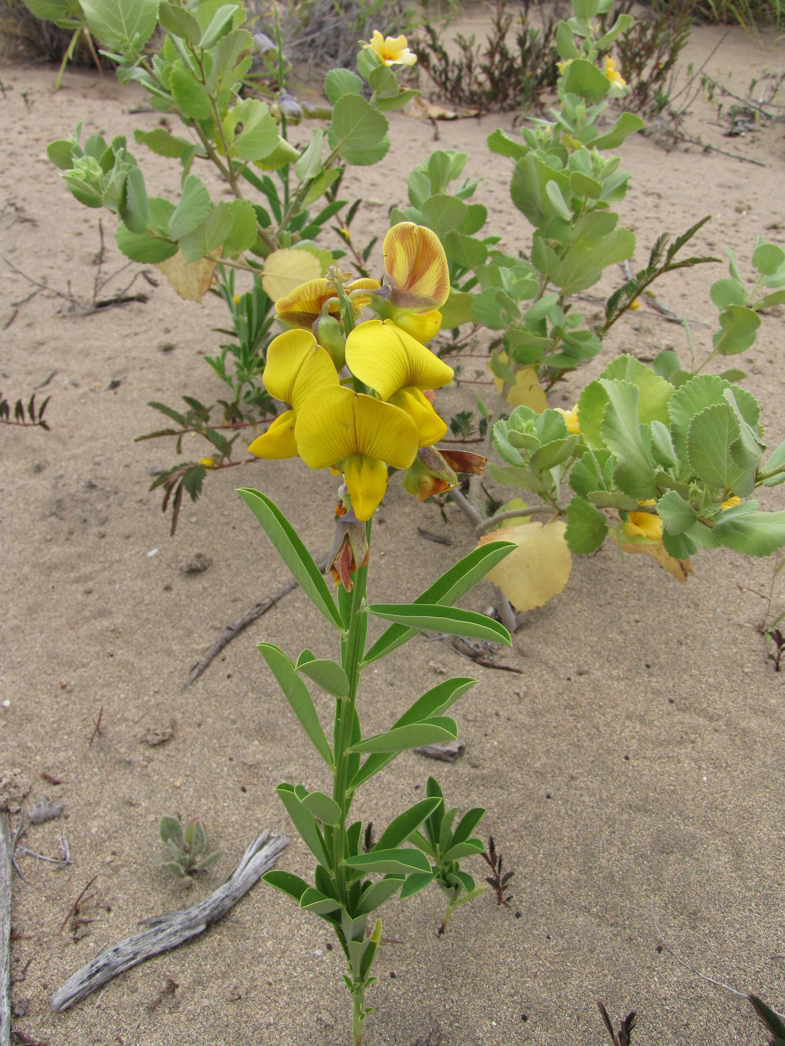 Crotalaria assamica (Rattle pod) Flowering habit at Kahului, Maui, Hawaii. April 22, 2013 #130422-4184 Image Use Policy